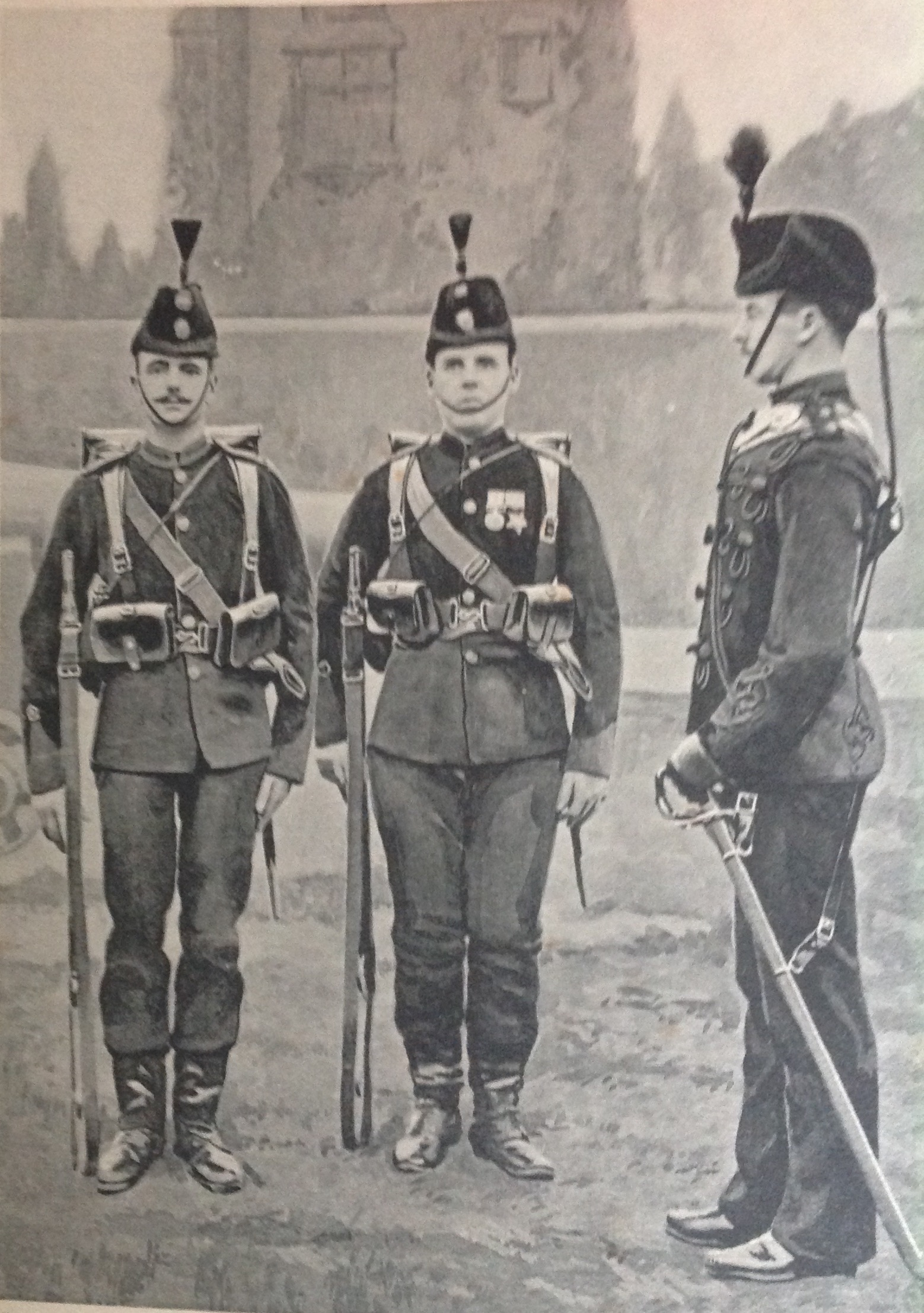 Post Office Rifles. Taken from Col C Cooper-King, The British Army and Auxiliary Forces, published by Cassell and Company Ltd, London, c1895